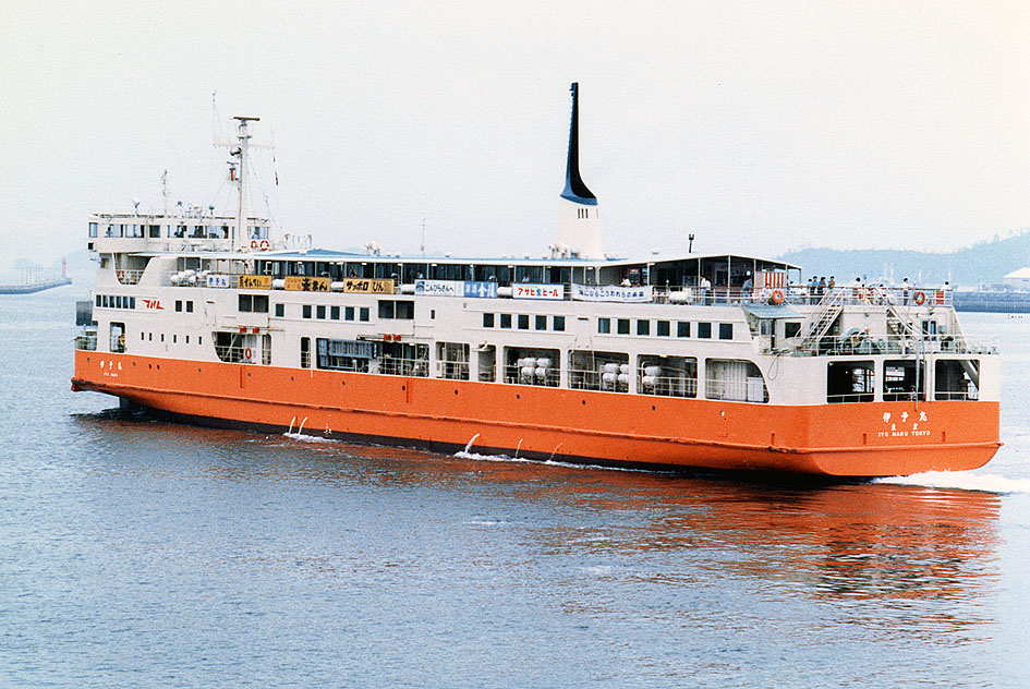 Iyo Maru